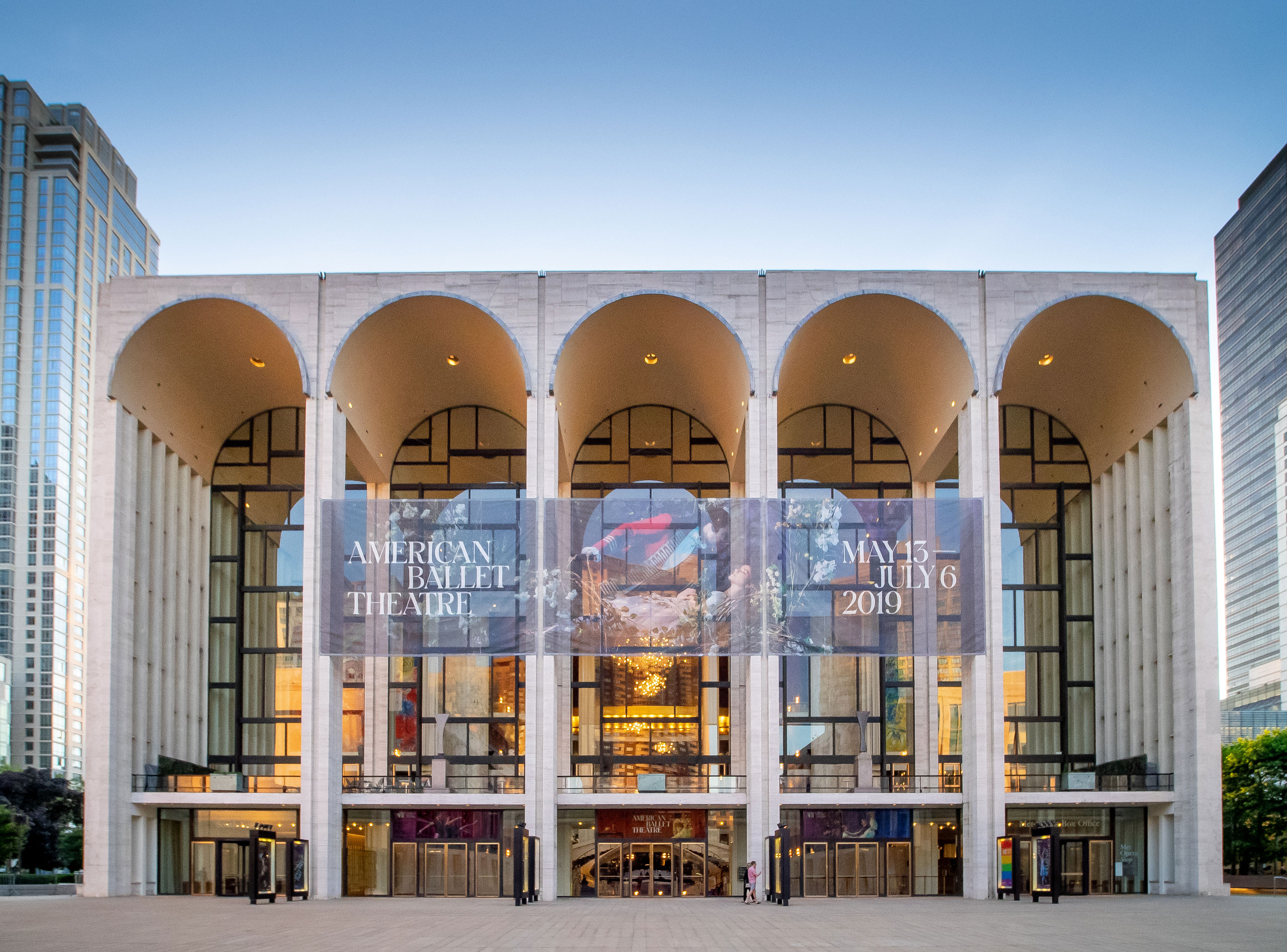 MET Opera Building with American Ballet Theater Branding